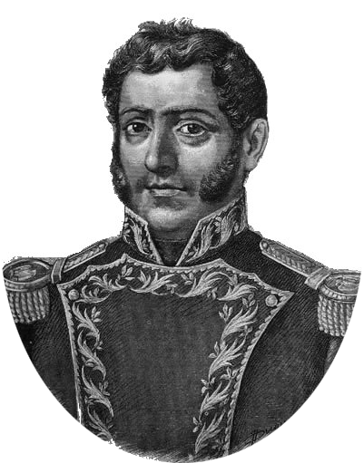 Melchor Muzquiz